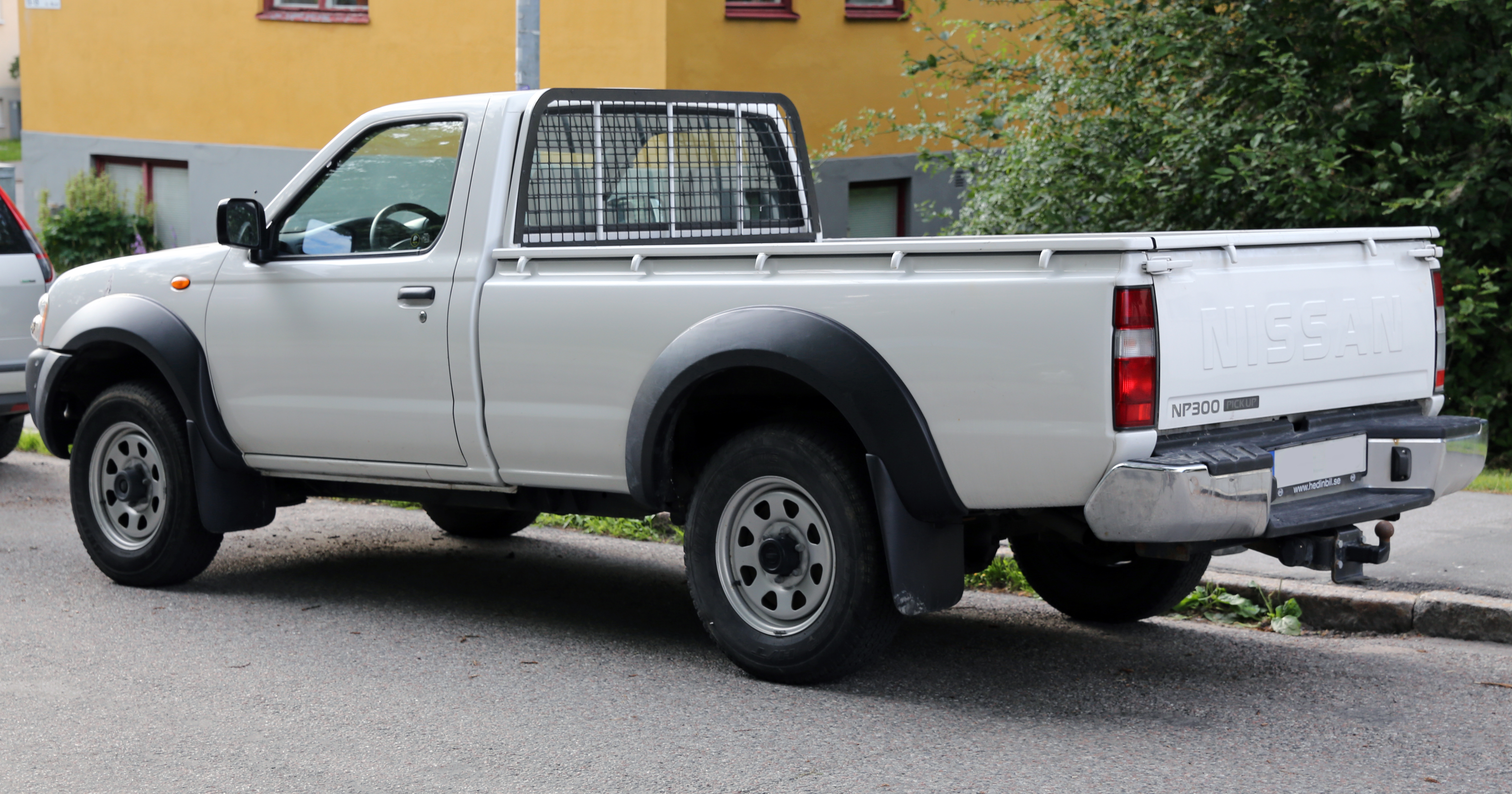 2009 Nissan NP300 Pickup single cab, on the D22 chassis. 98kW 2488cc YD25DDTi diesel engine (D22U).